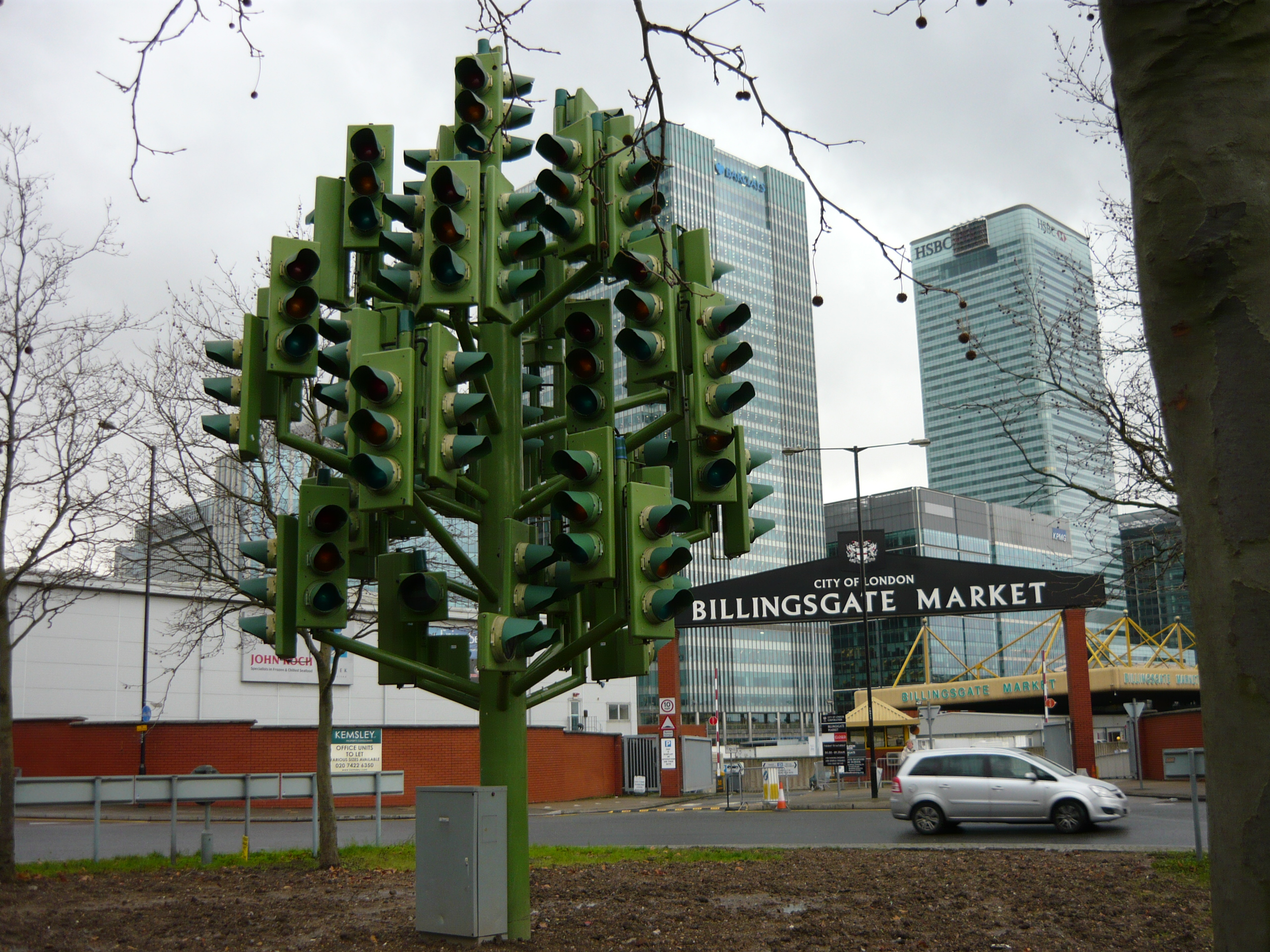 Traffic Light Tree